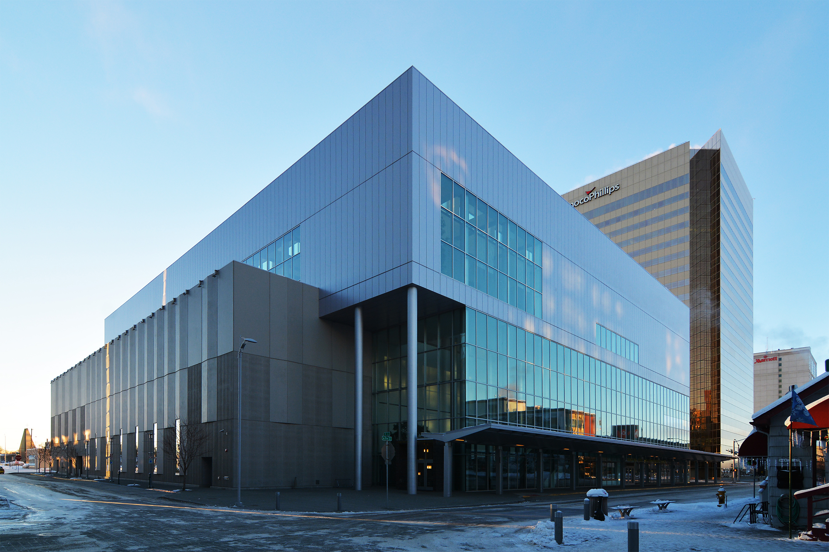 Street-level view of the Dena'ina Civic and Convention Center.